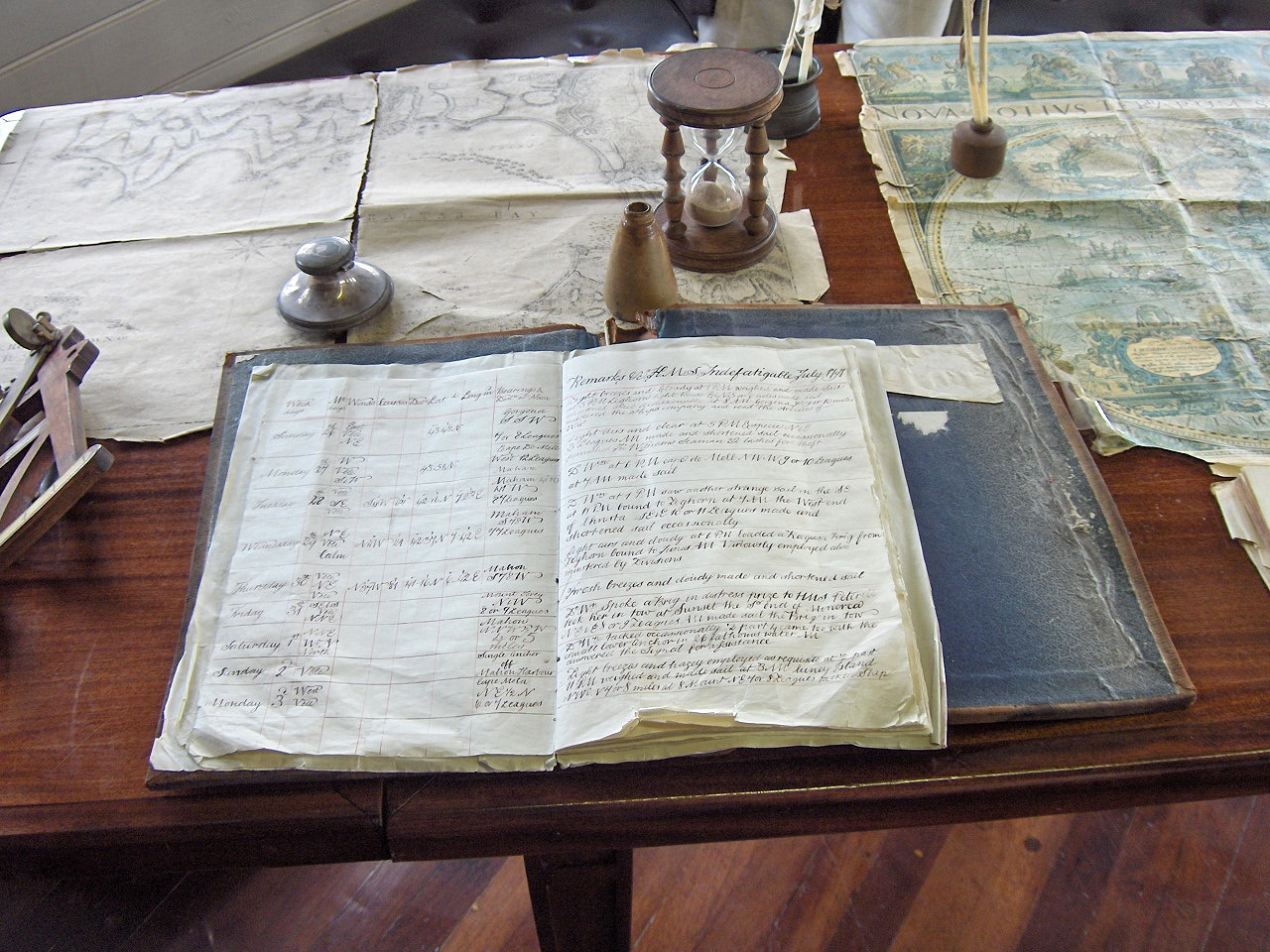 Grand Turk, a replica of a three-masted 6th rate frigate from Nelson's days - logbook and charts